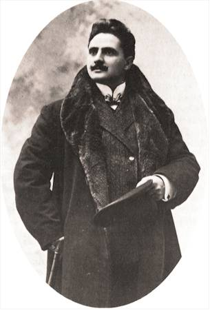 Portrait of Italian opera singer Riccardo Stracciari (1875-1955)